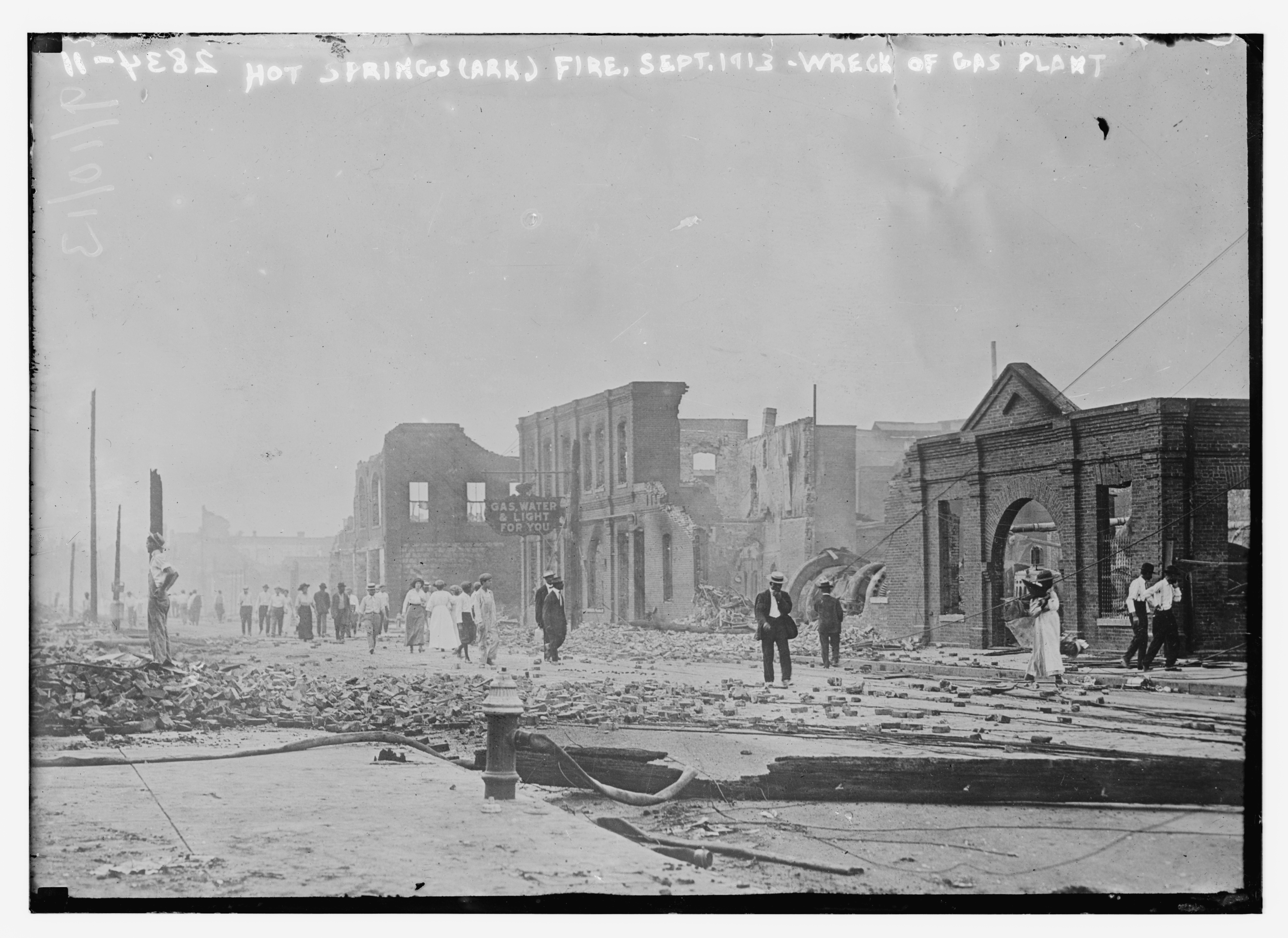 Remnants of the Hot Springs fire on September 10, 1913. This is the wreck of gas plant. Bain News Service,, publisher. Hot Springs (Ark.), fire Sept, 1913 - wreck of gas plant 1913 Sept. 10 (date created or published later by Bain) 1 negative : glass ; 5 x 7 in. or smaller. Notes: Title and date from data provided by the Bain News Service on the negative. Photo shows the ruins of a gas plant in Hot Springs, Arkansas after a fire on September 5, 1913. (Source: Flickr Commons project, 2010) Forms part of: George Grantham Bain Collection (Library of Congress). Subjects: Hot Springs, Ark. Format: Glass negatives. Repository: Library of Congress, Prints and Photographs Division, Washington, D.C. 20540 USA, General information about the Bain Collection is available at Persistent URL: Call Number: LC-B2- 2834-11